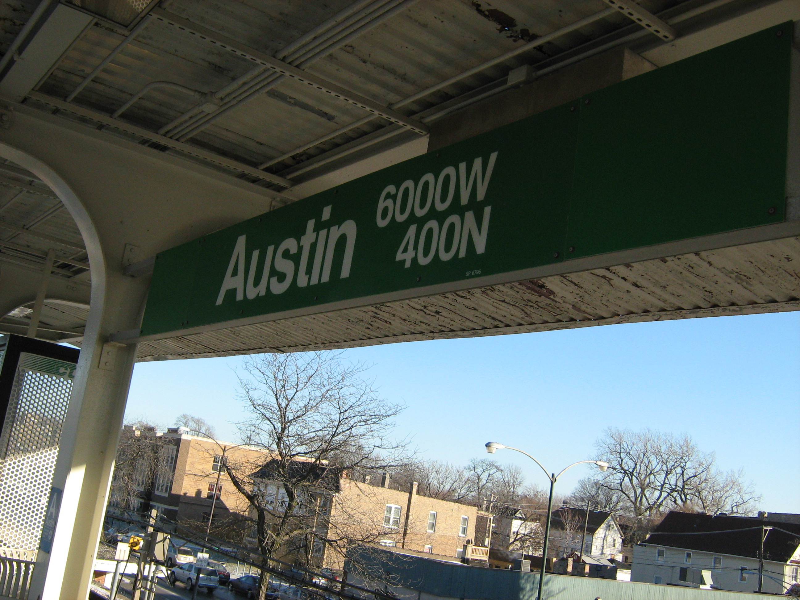 Austin CTA Green Line